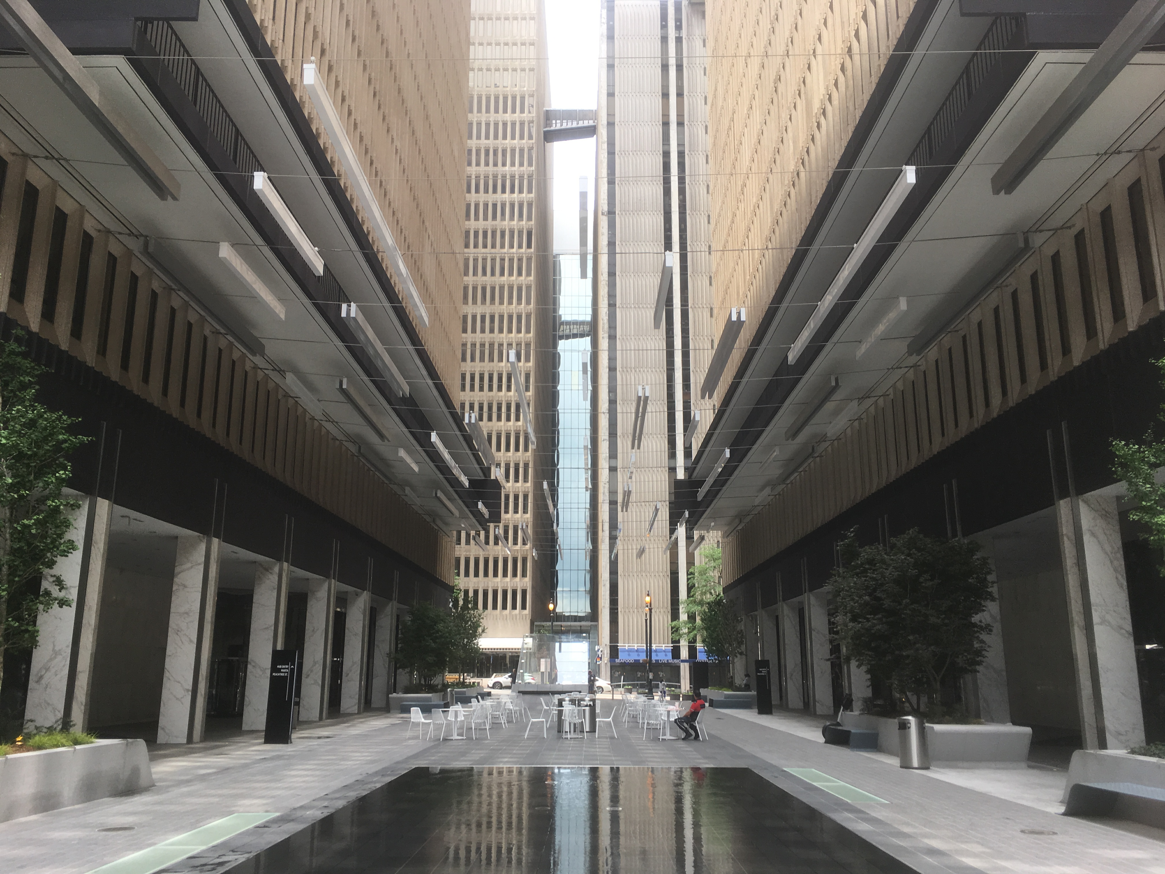 Above ground entrance to Peachtree Center looking west towards Peachtree Street in May 2019.